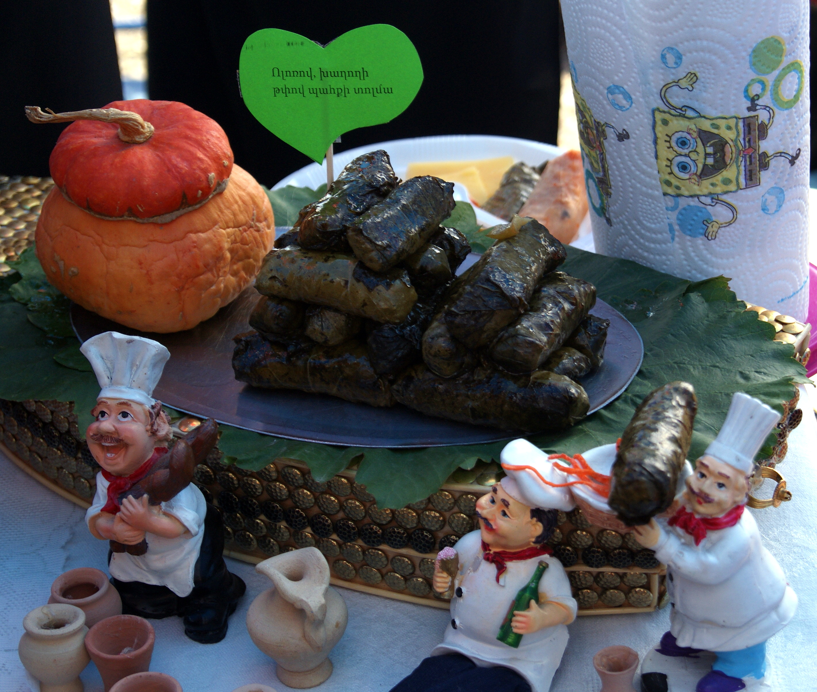 "Oudoulie" dolma festival, Armenia, Musa Ler